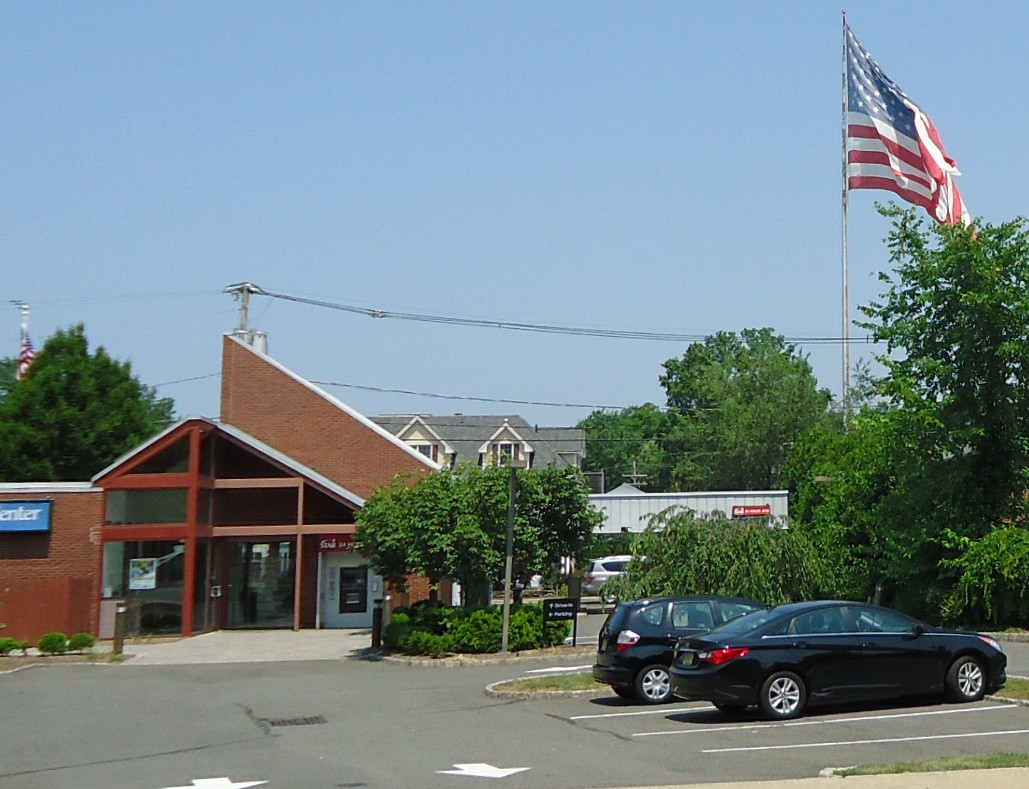 The giant flag towers over the intersection of Plainfield and Springfield Avenues in Berkeley Heights, New Jersey.